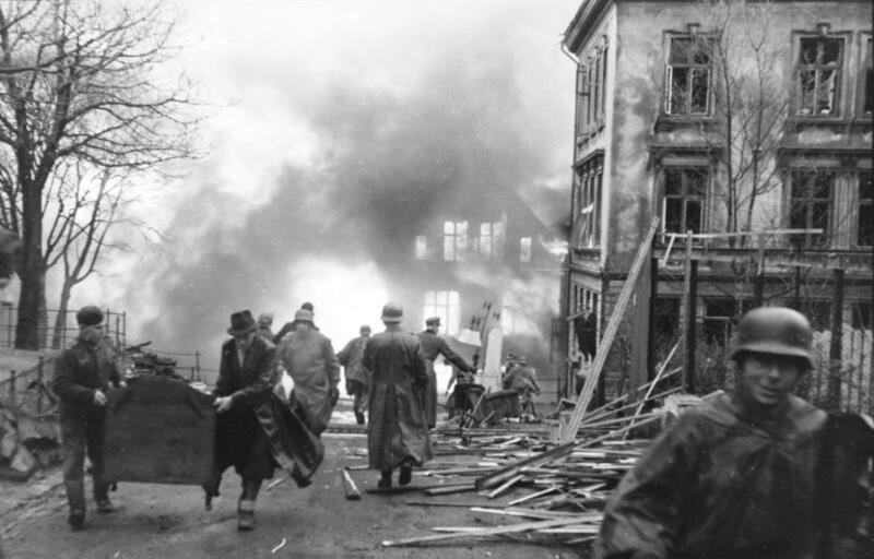 Information added by Wikimedia users.